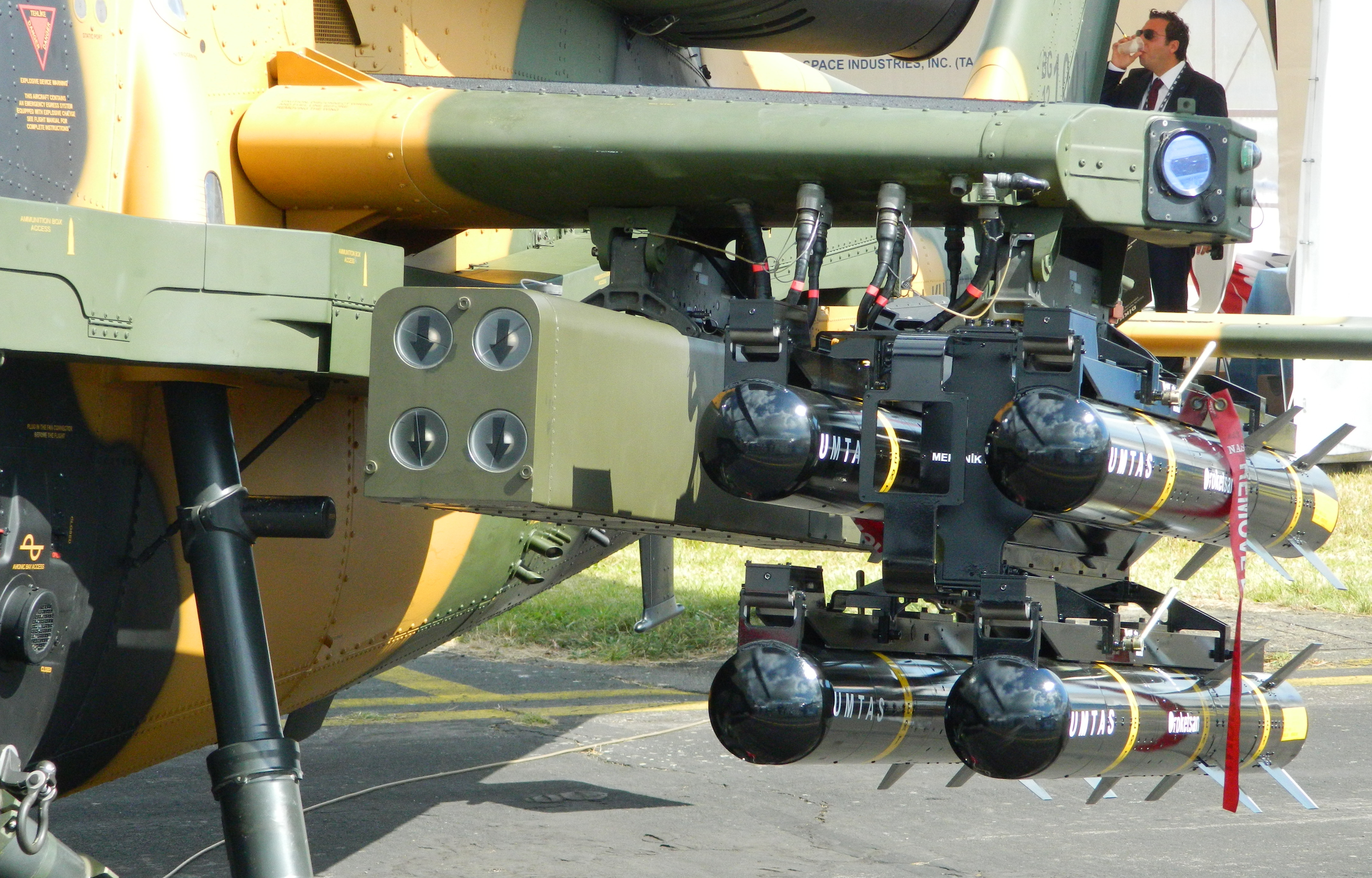 TAI T129 Attack Helicopter "1001" on display at the 2014 Farnborough Air Display